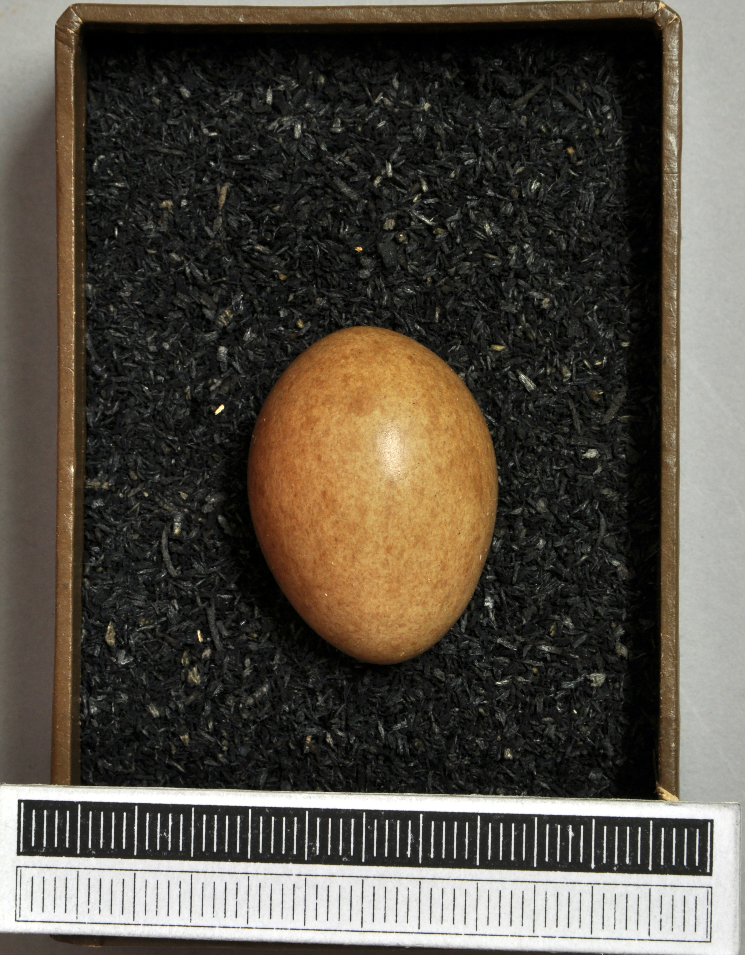 Baillon's crake Porzana pusilla , egg, Coll. Museum Wiesbaden